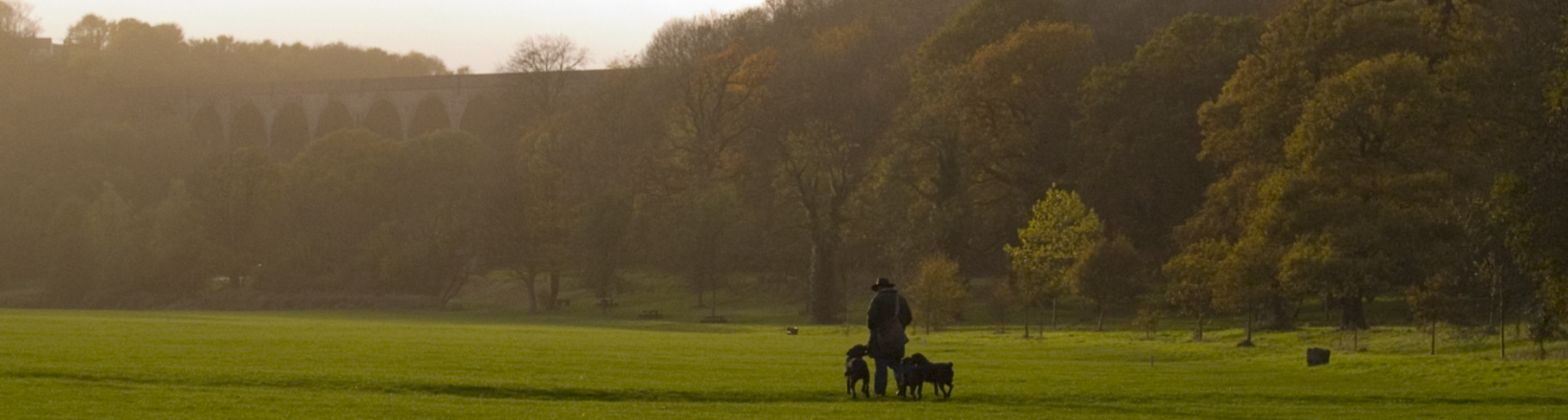 Pothkerry Park Autumn with view of the Porthkerry viaduct and a man walking with dogs